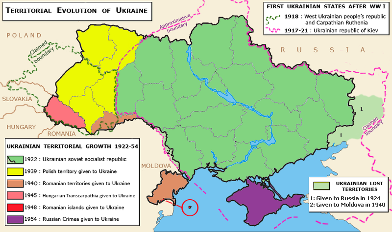 Ukrainian territorial evolution, 1918-1991